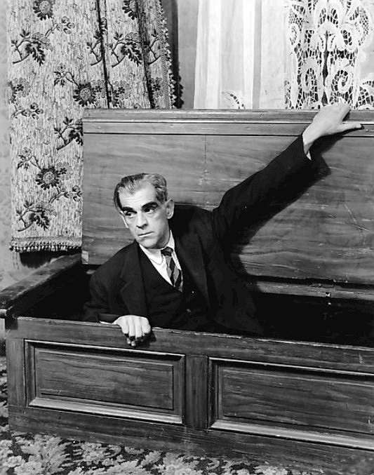 Photo of Boris Karloff as Jonathan Brewster from the Broadway presentation of Arsenic and Old Lace.